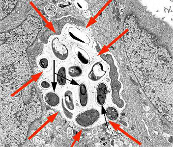 Transmission electron micrograph of E. intestinalis depicting developing forms inside a parasitophorous vacuole (red arrows) with mature spores (black arrows).